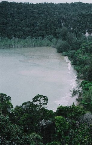 Bako view of beach from viewing station, photographed by Helen Creighton April 2003.